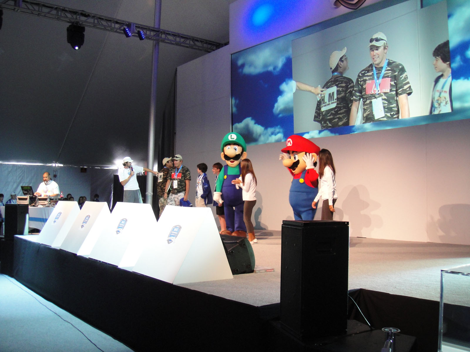 Wii Games Summer 2010 - Luigi and Mario on stage